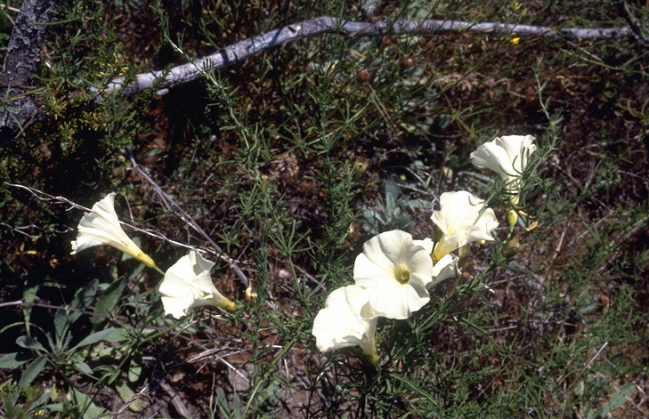 Calystegia stebbinsii. BLM photo, no copyright.